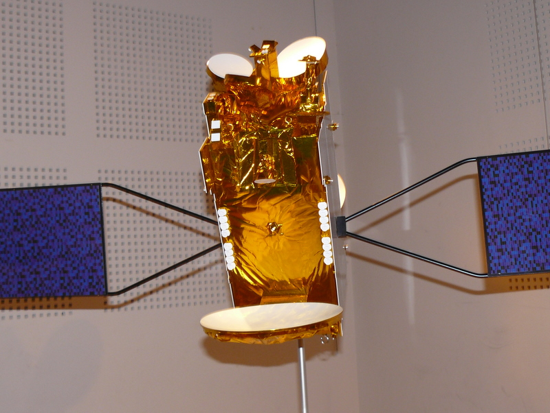 1/10th scale mockup of Stellat satellite, a Spacebus 3000B3